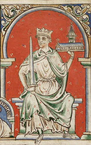 Richard I Lionheart, King of England. (British Library, MS Royal 14 C VII f.9)